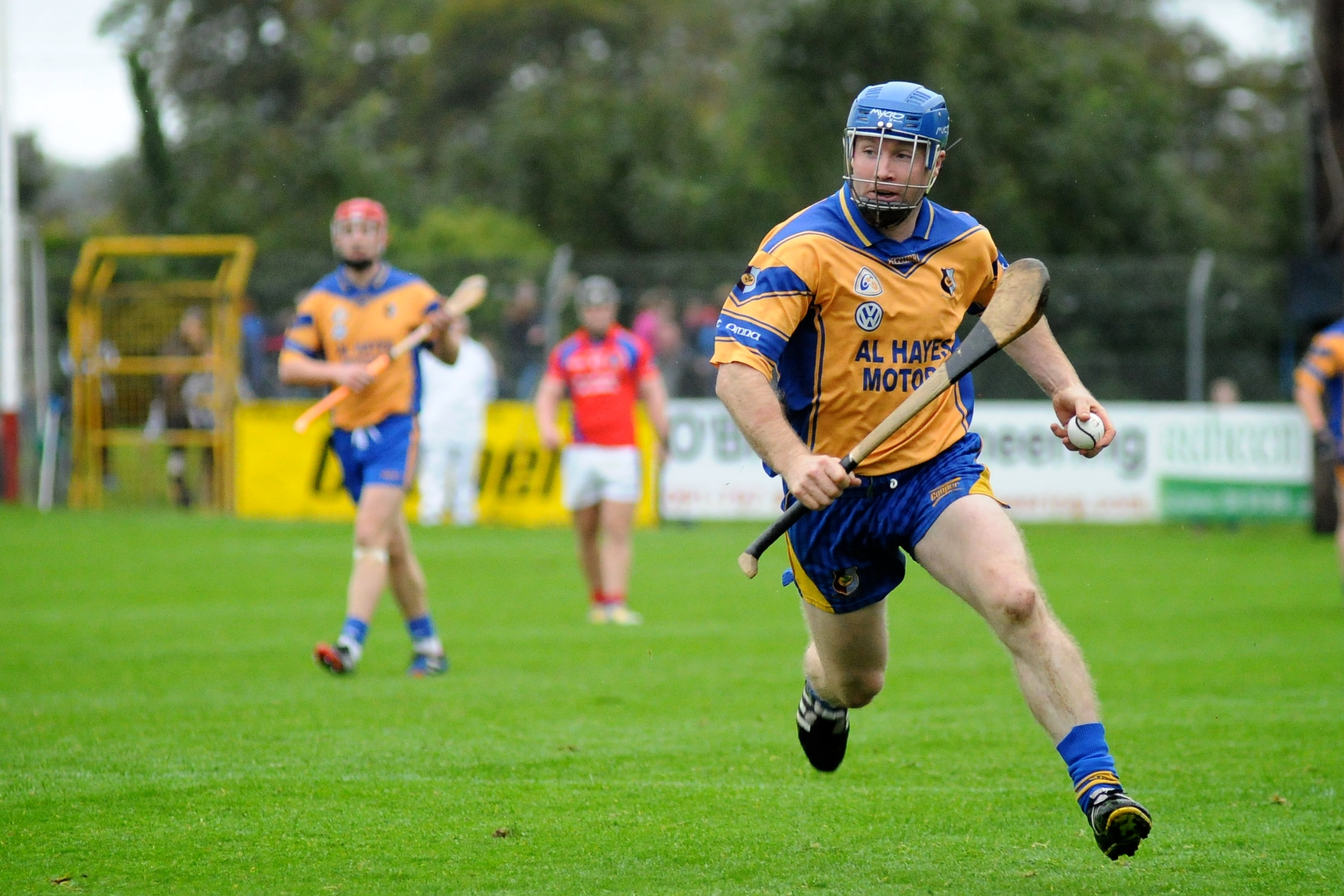 Damien Hayes in action for Portumna against St. Thomas' in the 2013 Galway Senior Hurling Championship semi-final